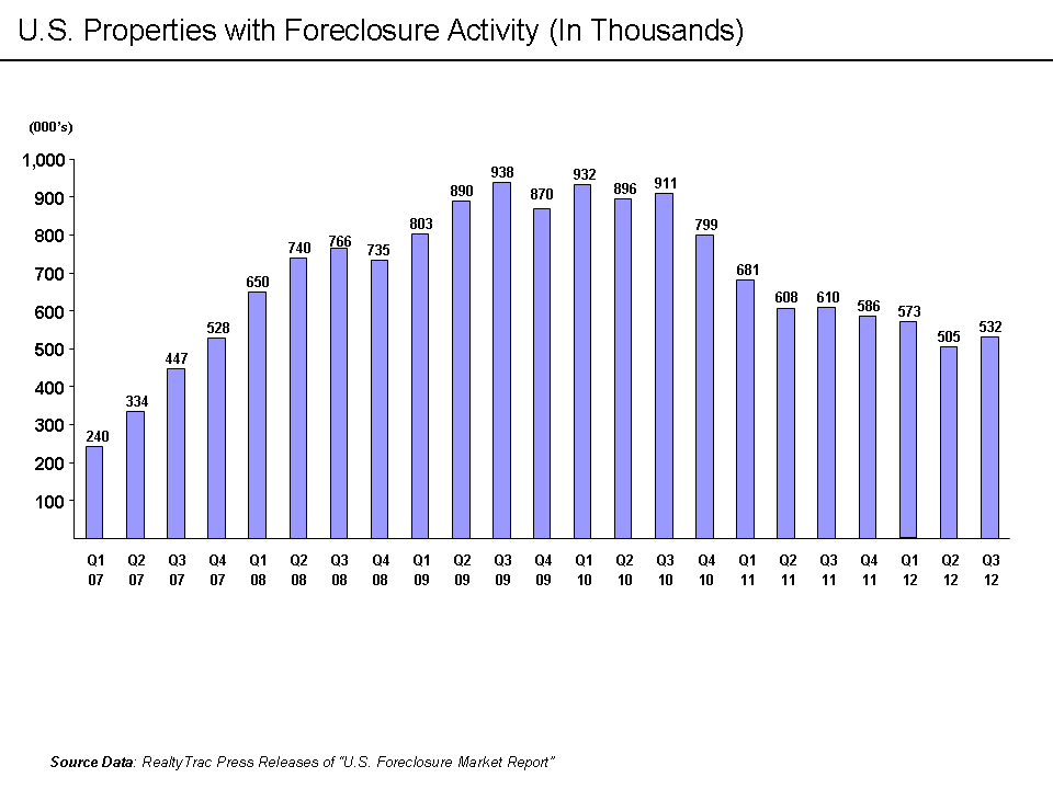 U.S. properties with Foreclosure Activity